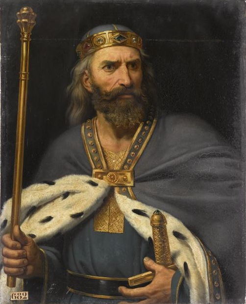 Portraits of Kings of France is a serie of portraits commissioned between 1837 and 1838 by Louis Philippe I and painted by various artists for the Musée historique de Versailles.